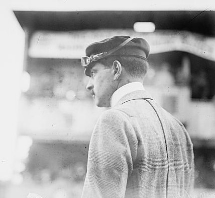 William Kissam Vanderbilt II (1878 – 1944), American racecar driver